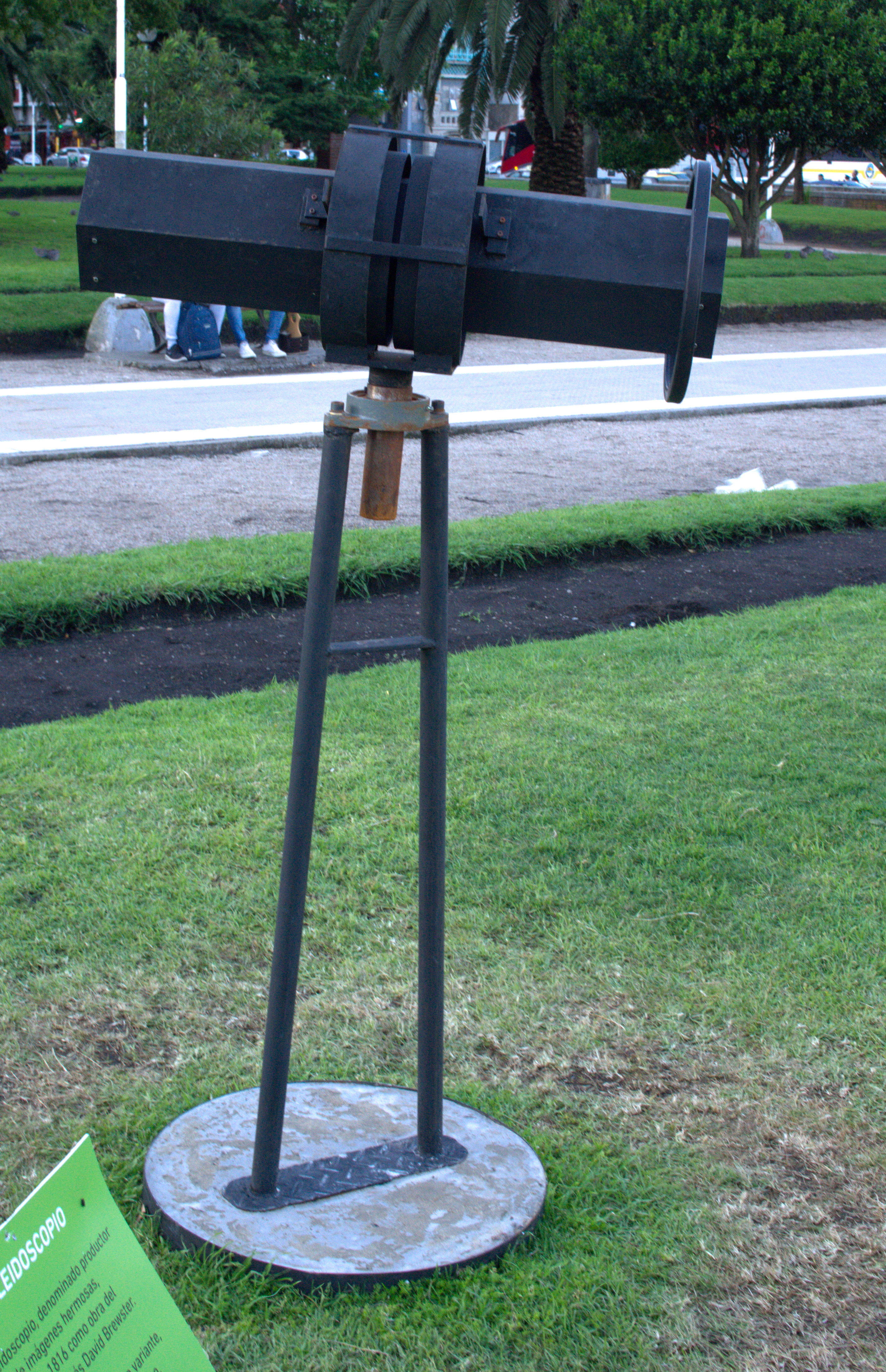 Teleidoscope in Mar del Plata, Argentina